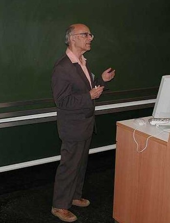 Prof. I. M- Sobol